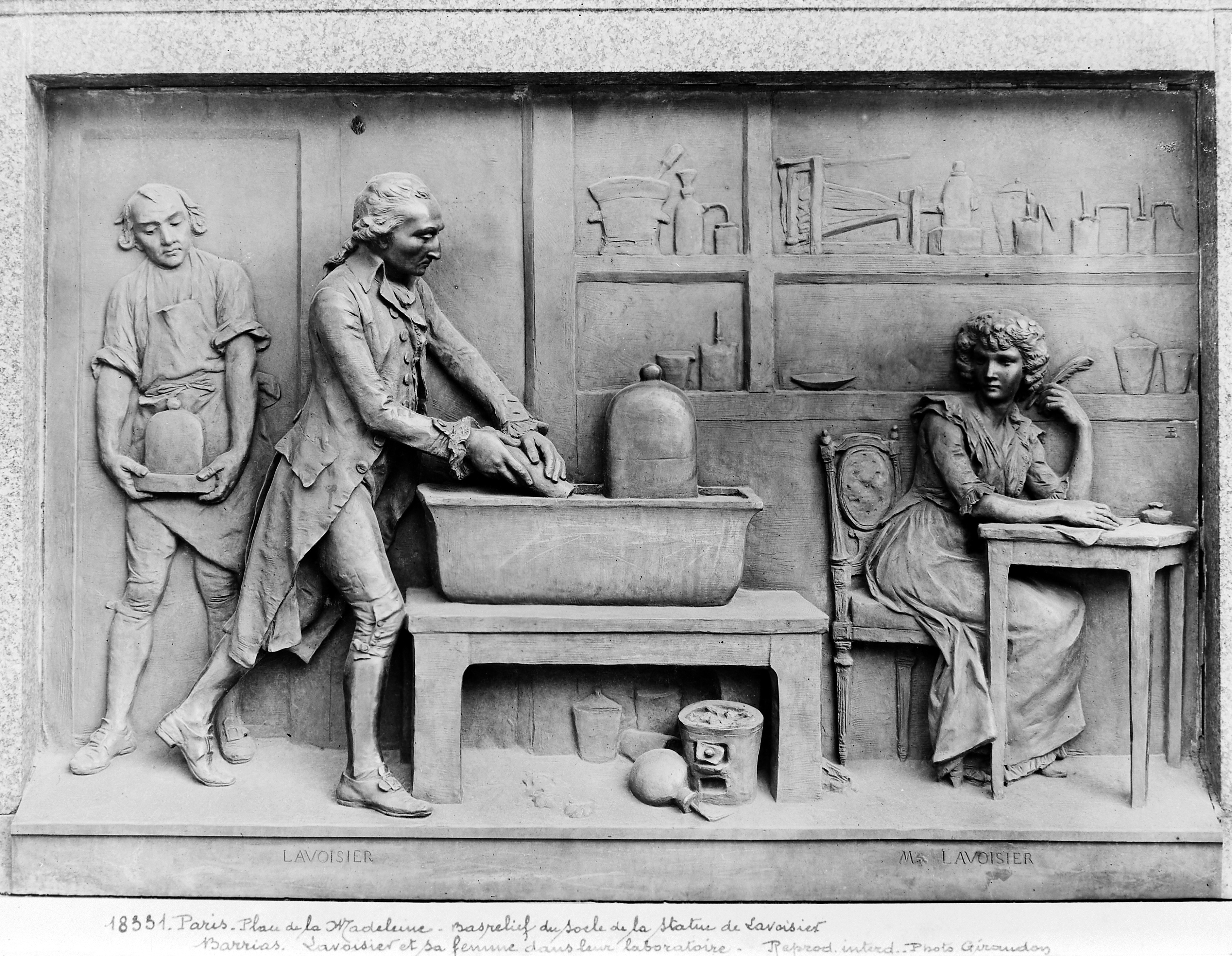 Relief, on the base of the statue of Lavoisier, 'Lavoisier and his wife in their laboratory'. Wellcome Images Keywords: Alchemy; Chemistry; Antoine Laurent Lavoisier